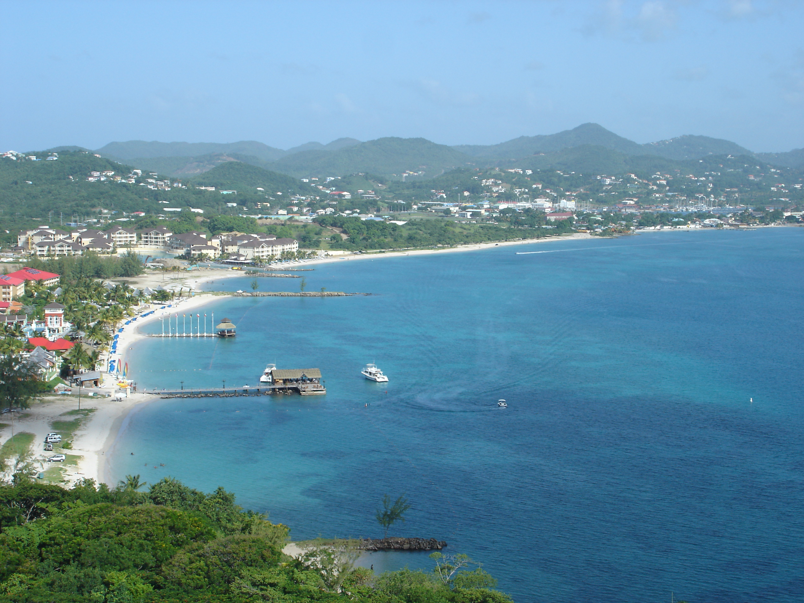 Picture taken from the top of Pigeon Island, looking East, towards Reduit Beach. To the left is the Landings Sandals Grande.